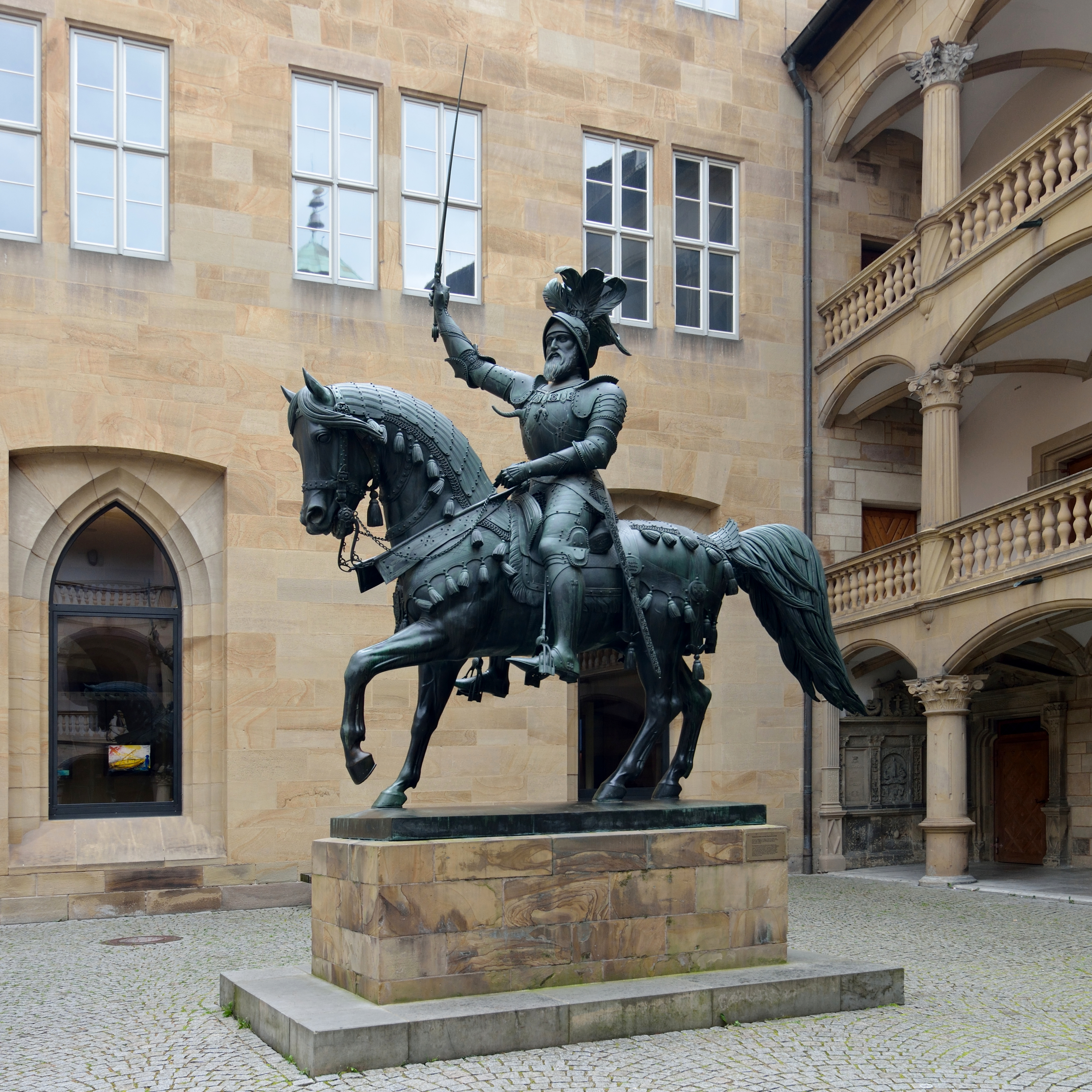 Eberhard I., Duke of Württemberg, sculpted by Ludwig Hofer, 1859